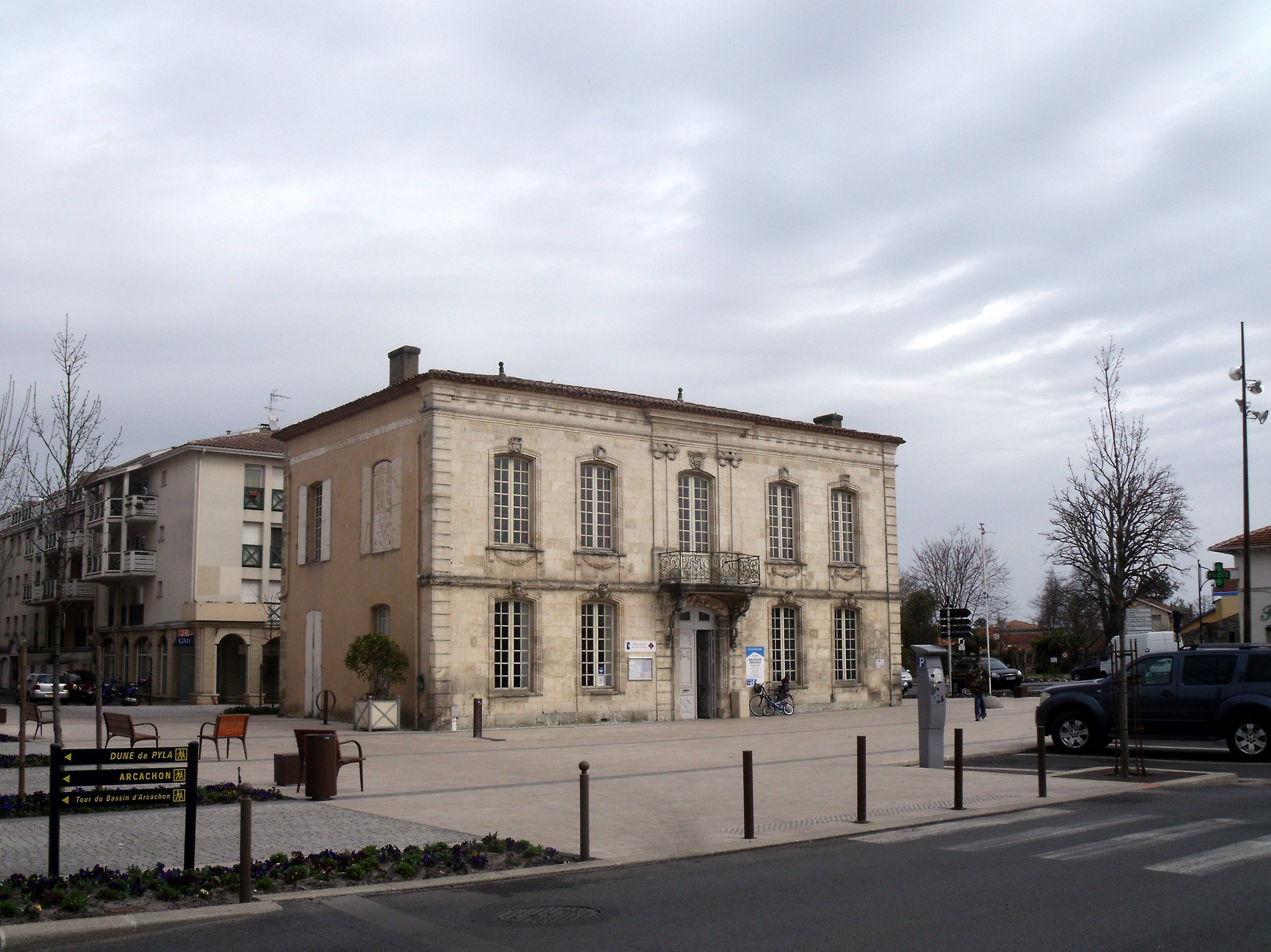 The Jean Hameau Square in La Teste-de-Buch, Gironde, Aquitaine, France.